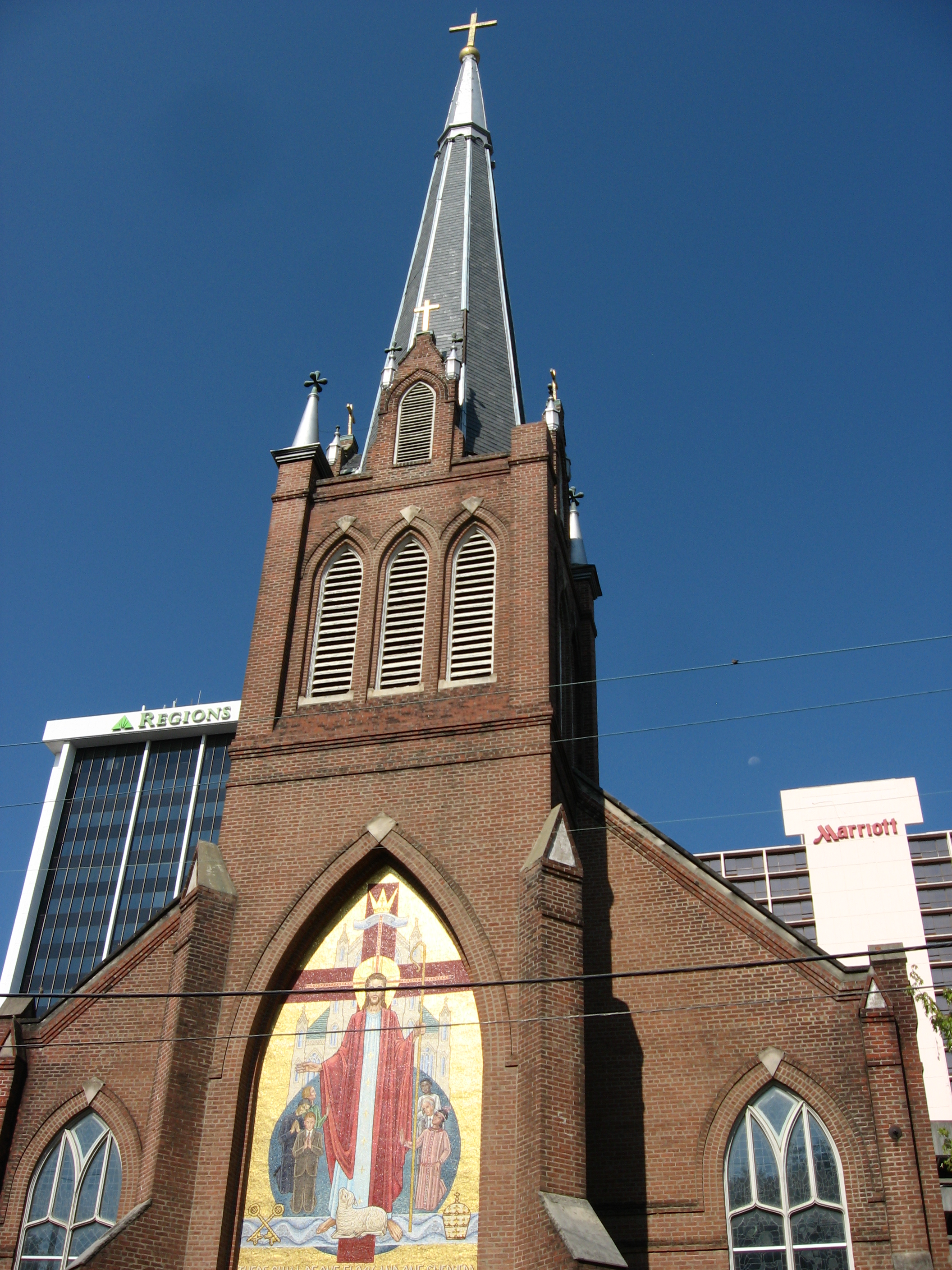 Catholic cathedral of St. Peter the Apostle (Jackson, Mississippi), seat of the Bishop of the Roman Catholic Diocese of Jackson, Mississippi. Source: [1]